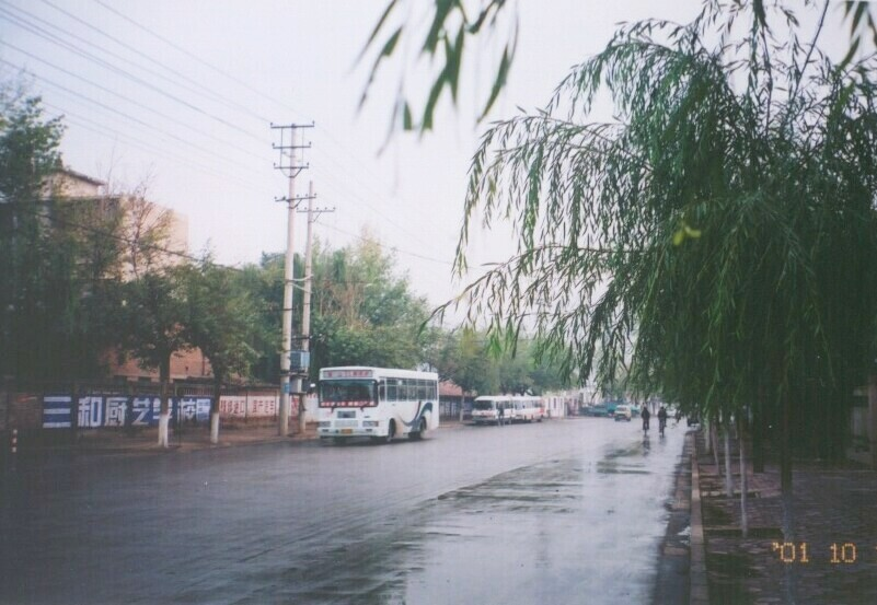 西宁 南川西路 Nan Chuan Xi Lu, Xining, Qinghai, People's Republic of China.